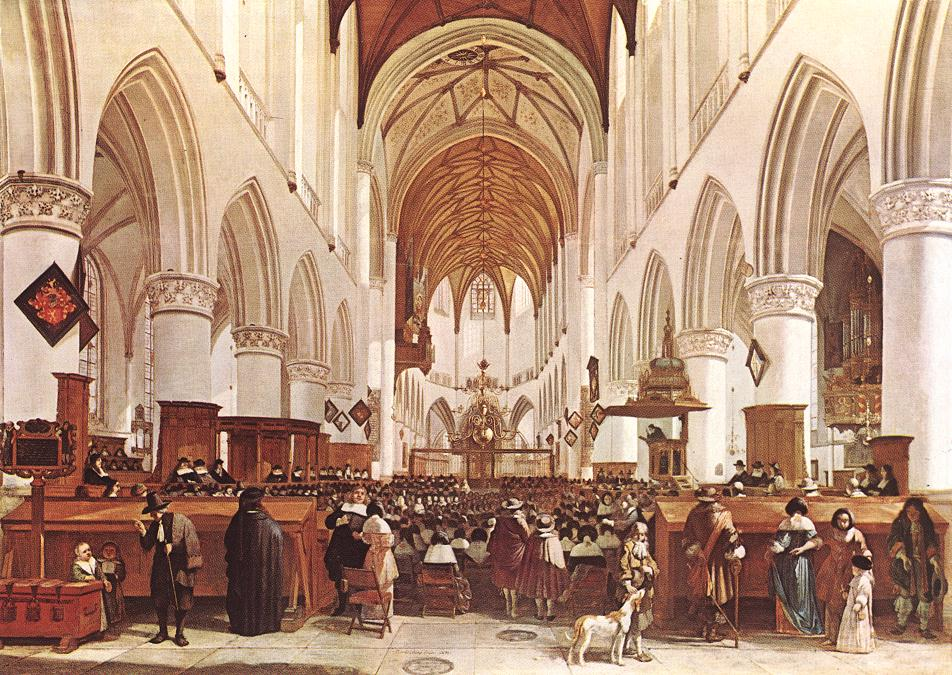 The Interior of the Grote Kerk (St Bavo) at Haarlem (1673) by Gerrit Adriaenszoon Berckheyde